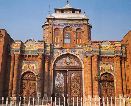 Gates of Iran's Foreign Ministry, called Bagh-Melli. The gates were made during the Qajar era. Location: Tehran, Iran.